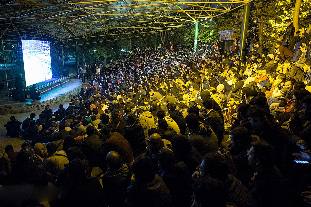 People watching 2018 AFC Champions League final at Tehran's Laleh Park